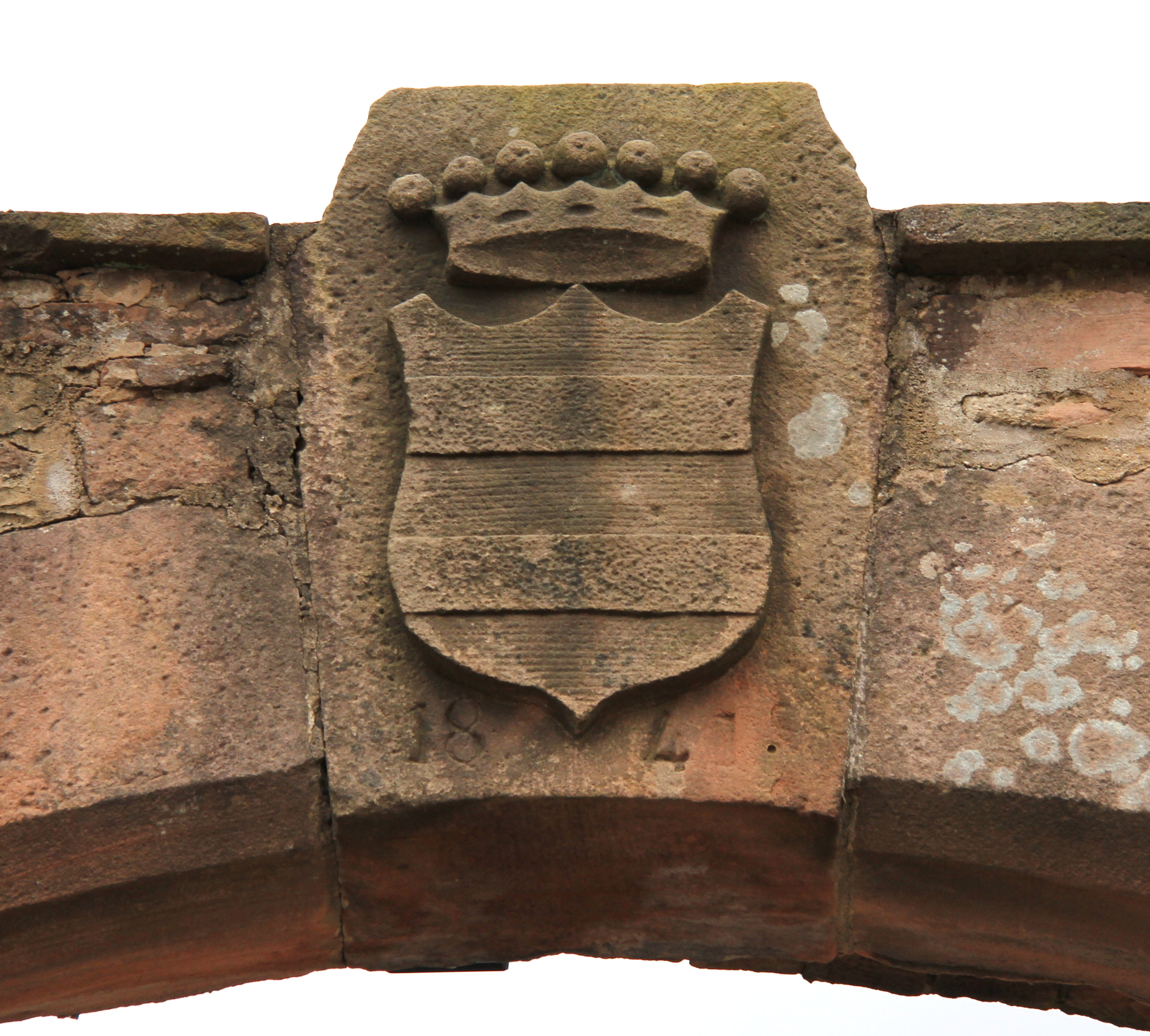 Unterbessenbach Estate: Coat of arms of the von Gemmingen family over the court gate mentioning the year 1841